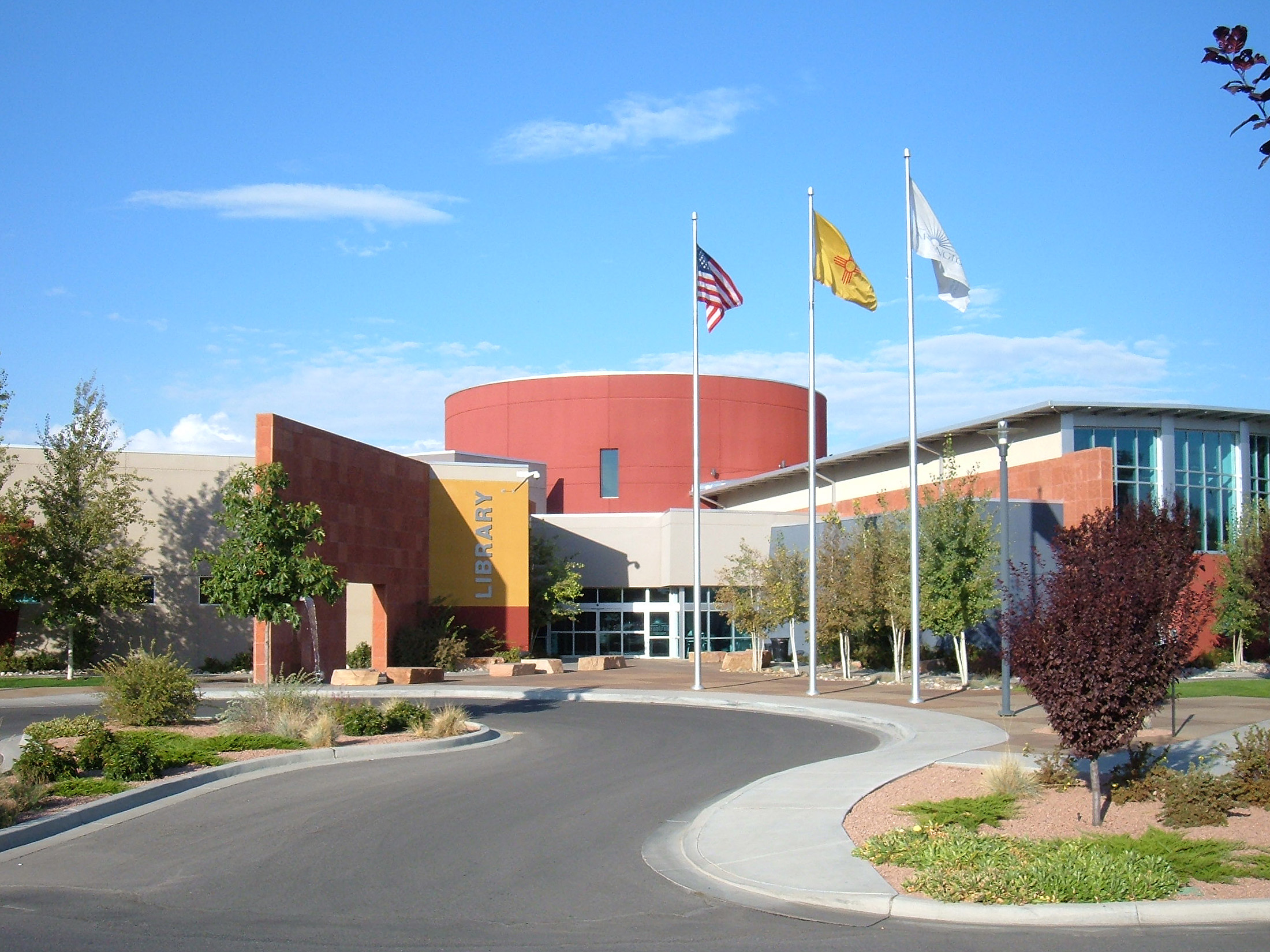 Farmington, New Mexico Public LIbrary, constructed 2003